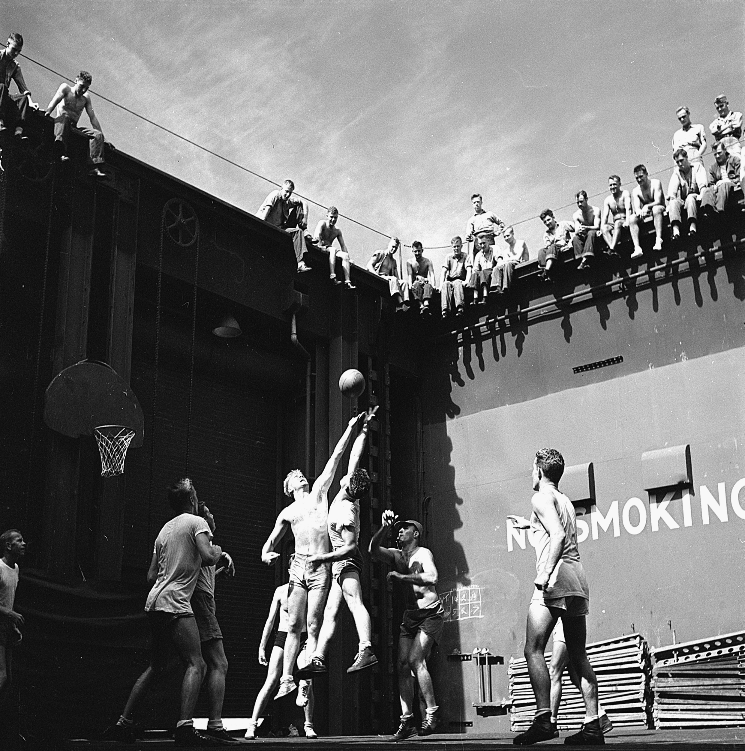 "Activities aboard USS Monterey (CVL-26). Navy pilots in the forward elevator well playing basketball., ca. 06/1944"Jumper of the left is future U.S. President Gerald Ford[1][2]